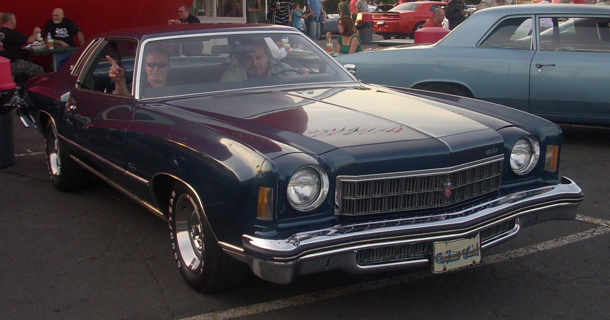 1975 Chevrolet Monte Carlo photographed in Montreal, Quebec, Canada at Gibeau Orange Julep.